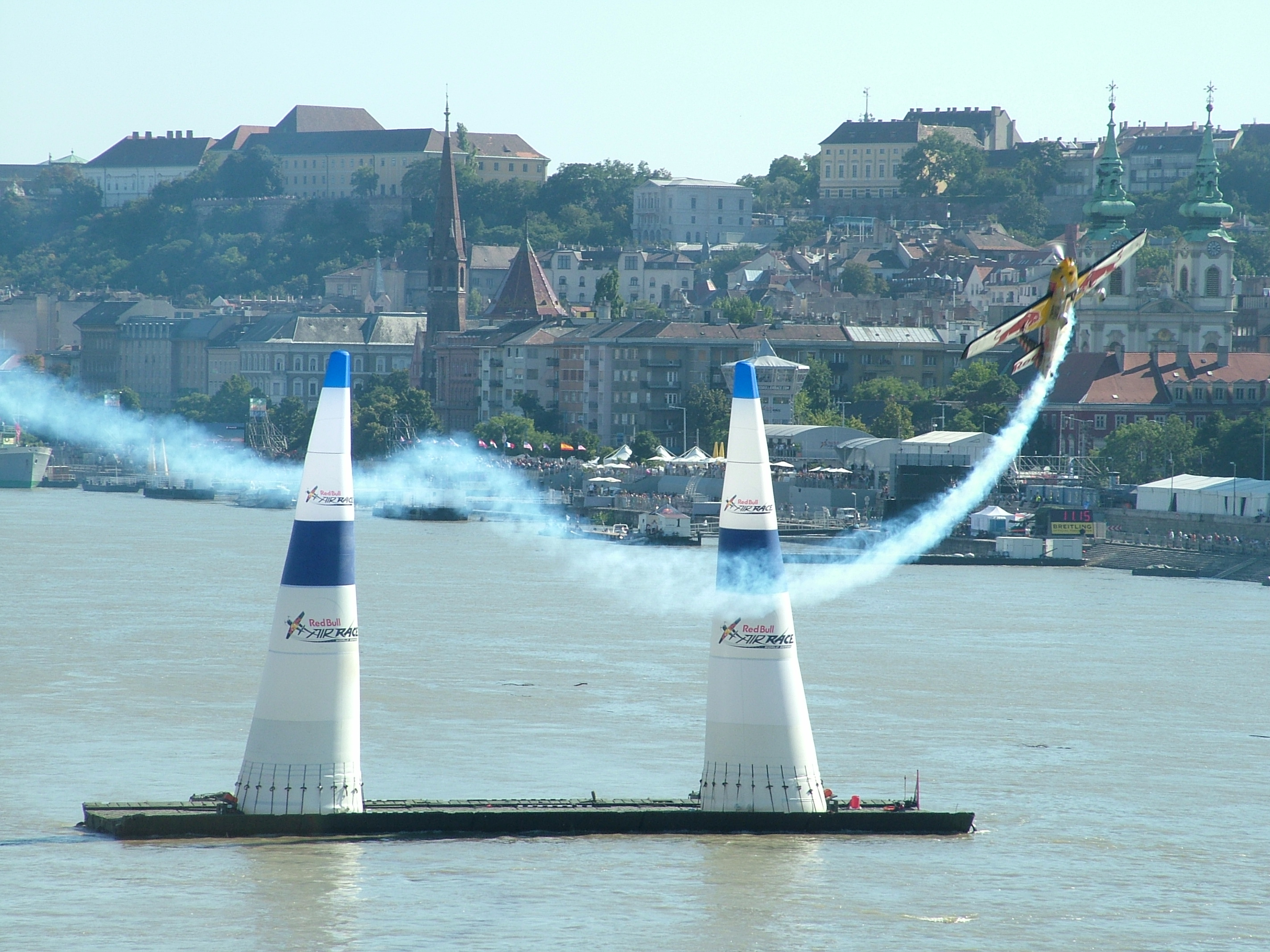 Red Bull Air Race 2008 - Hungarian race (Budapest)